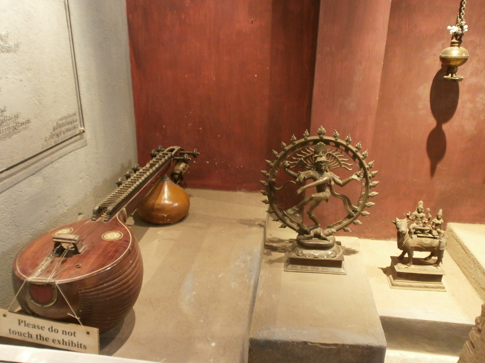 Dakshina-Chitra-Household-Items-2